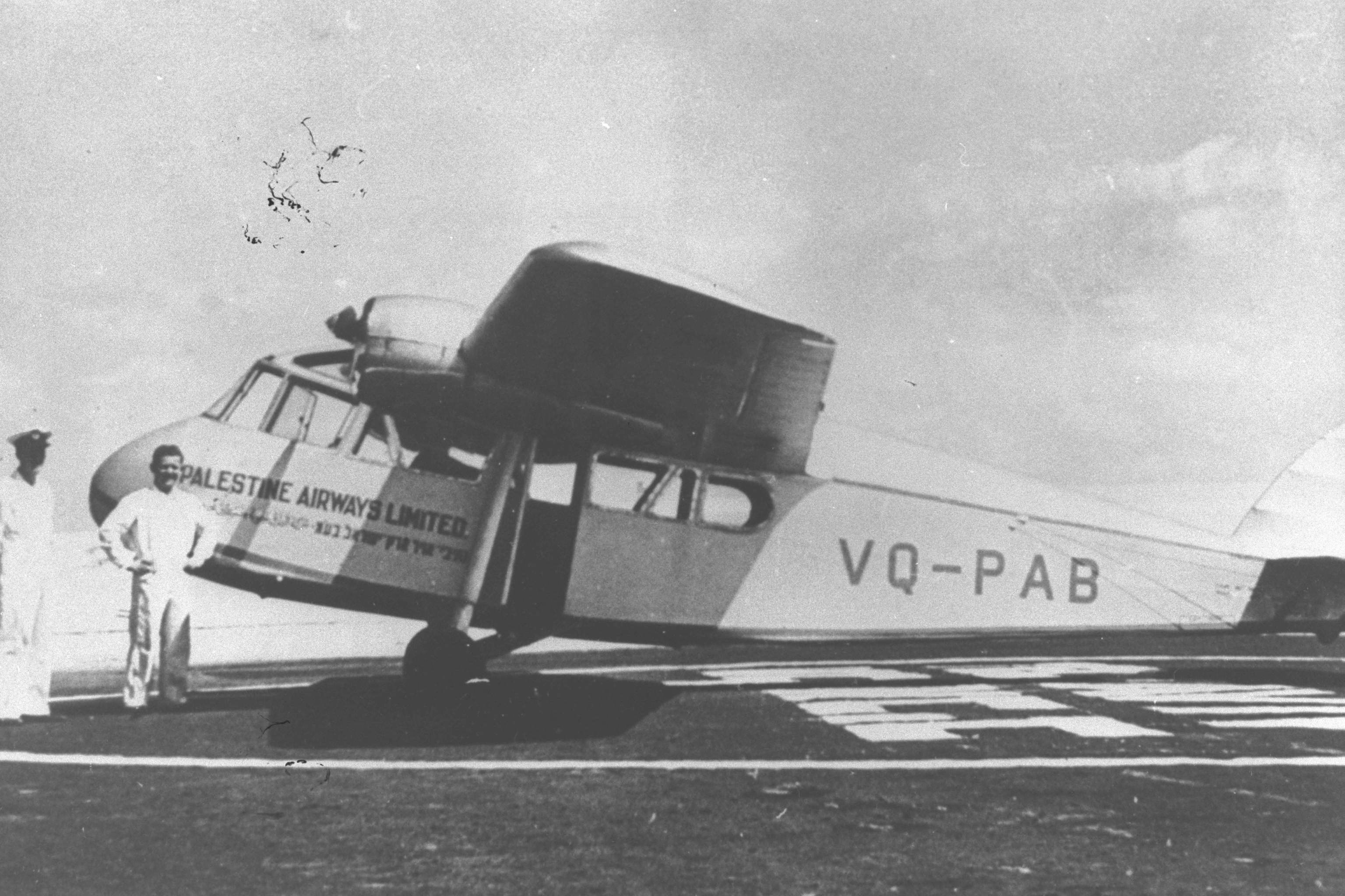 PASSENGER PLANE OF THE PALESTINE AIRWAYS COMPANY AT THE LOD AIRPORT. מטוס נוסעים של חברת "נתיבי אויר ארץ ישראל" חונה בנמל התעופה בלוד.